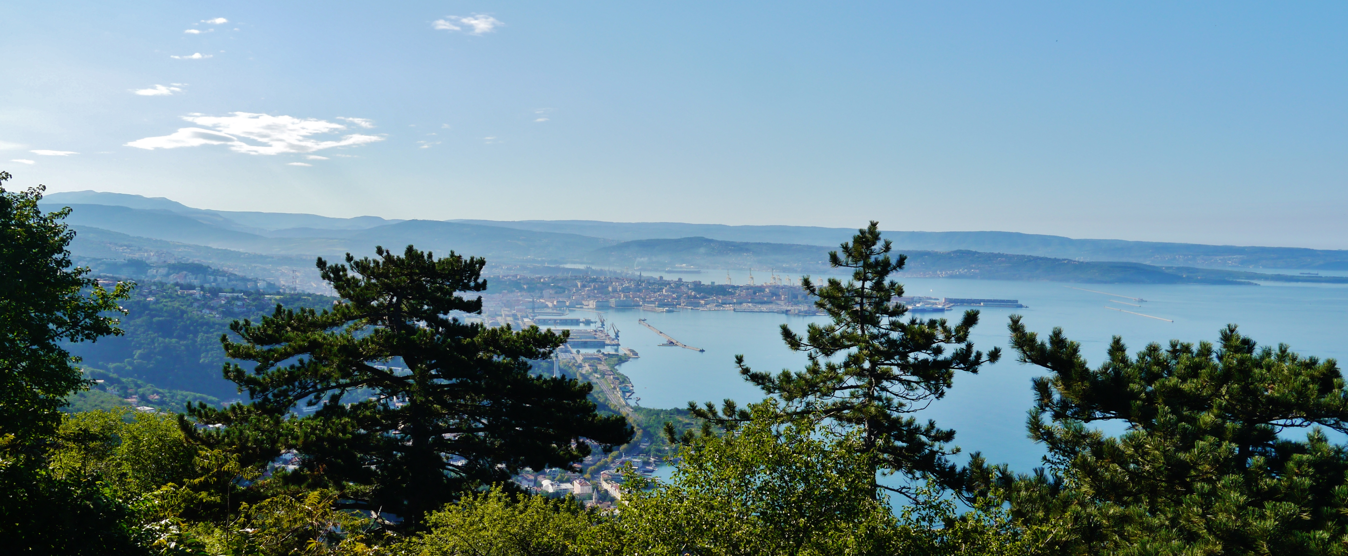 View from Monte Grisa, Trieste, Friuli-Venezia Giuli, Italy